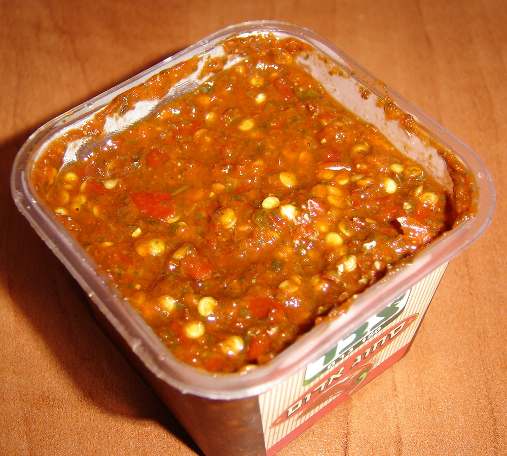 Skhug ((Hebrew: סחוג Arabic: سحوق) also spelled skhoog, shug, zhug, zhuk (since the Yeminite K is pronounced as a G) or schug, is a Yemenite hot sauce)